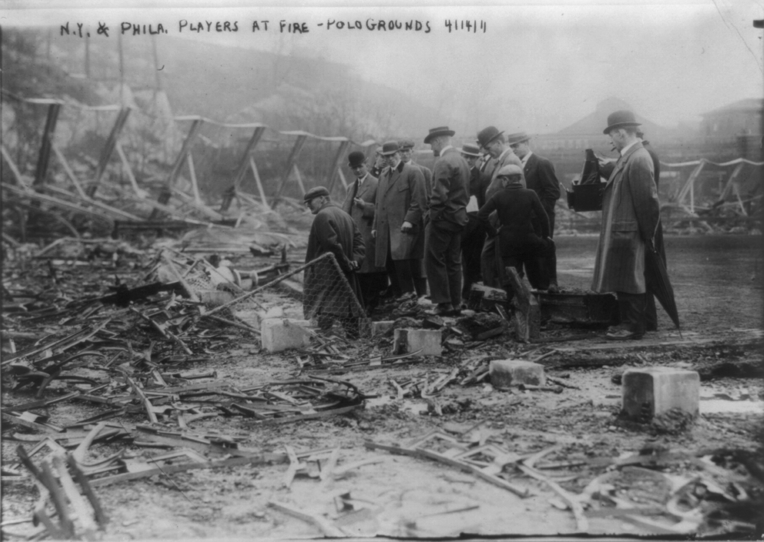 New York Giants and Philadelphia Phillies players at site of fire - Polo Grounds, NYC, April 14, 1911